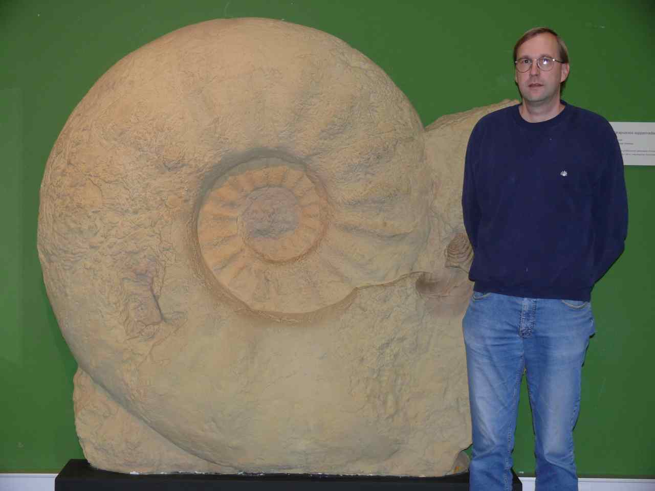 Parapuzosia seppenradensis, biggest known ammonite, diameter 1.8o m.